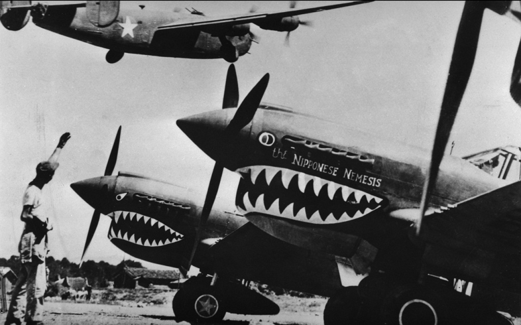 Aircrafts of the "Flying Tigers".